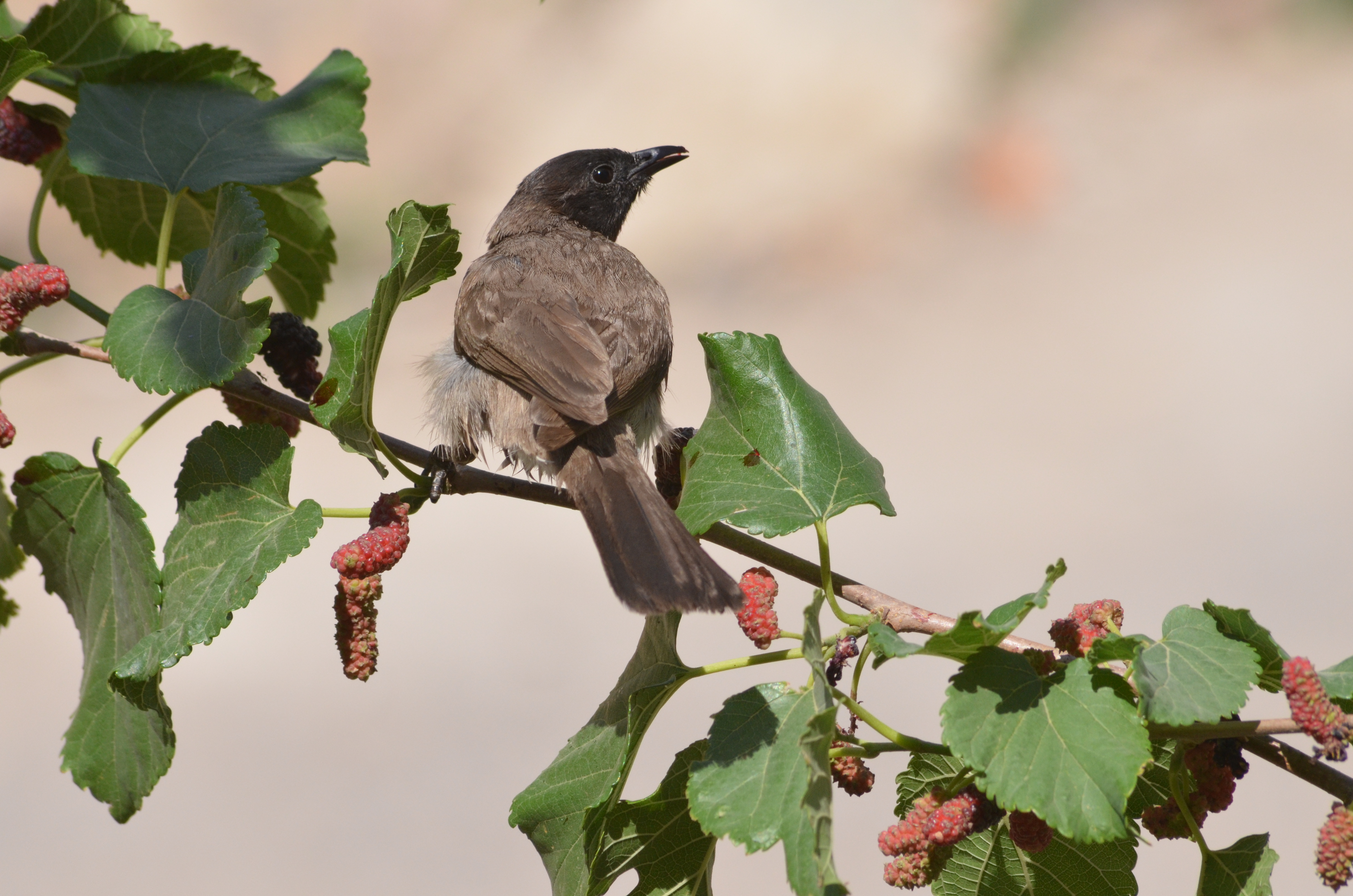 Common bulbul